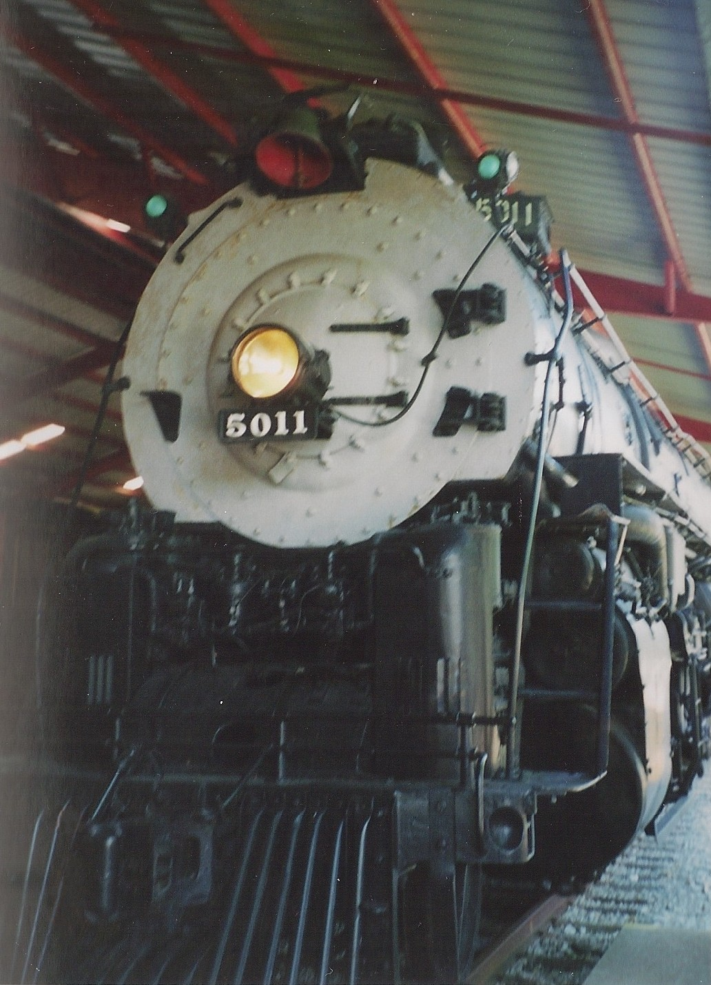 Atchison, Topeka and Santa Fe 5011 at the Museum of Transportation in St. Louis County, Missouri (United States).